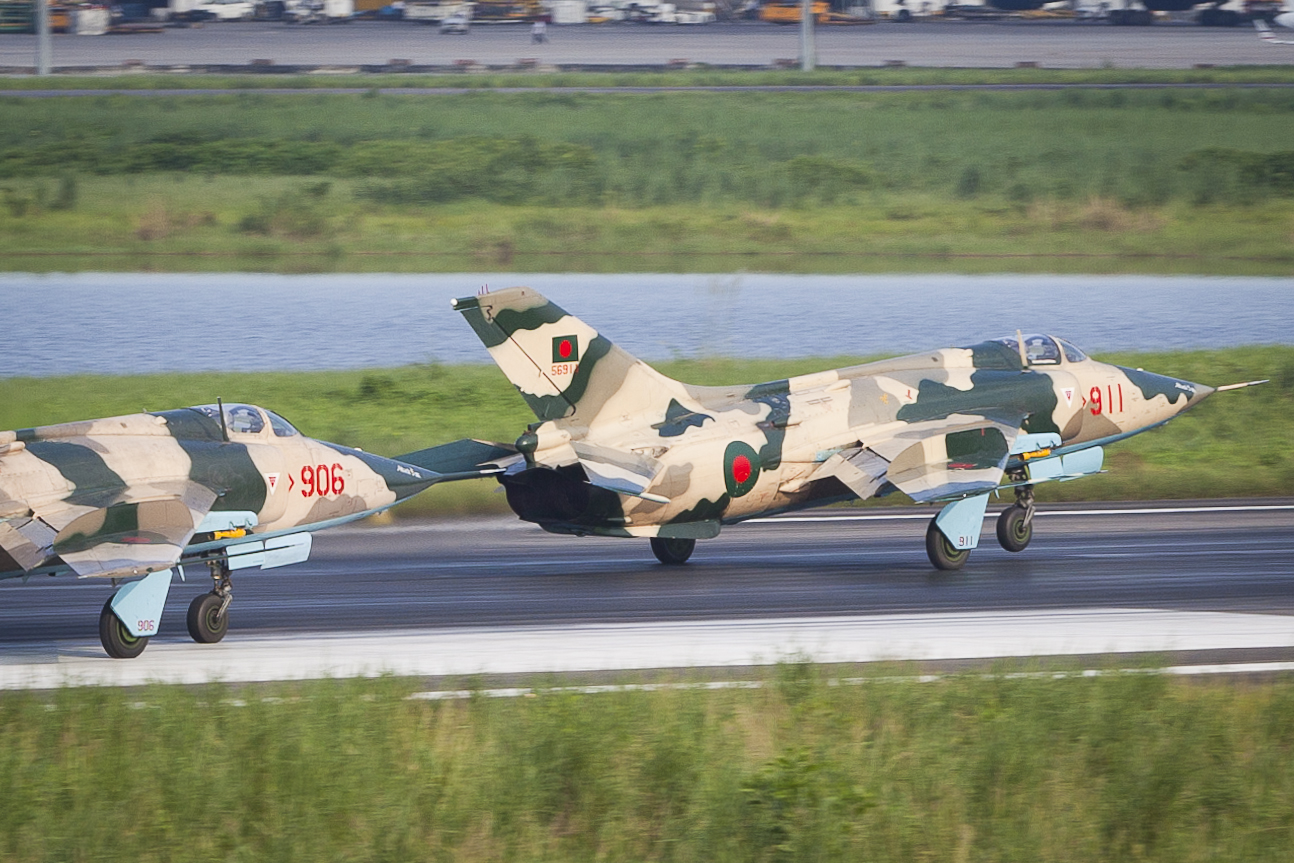 Nanchang A-5 Formation Take Off